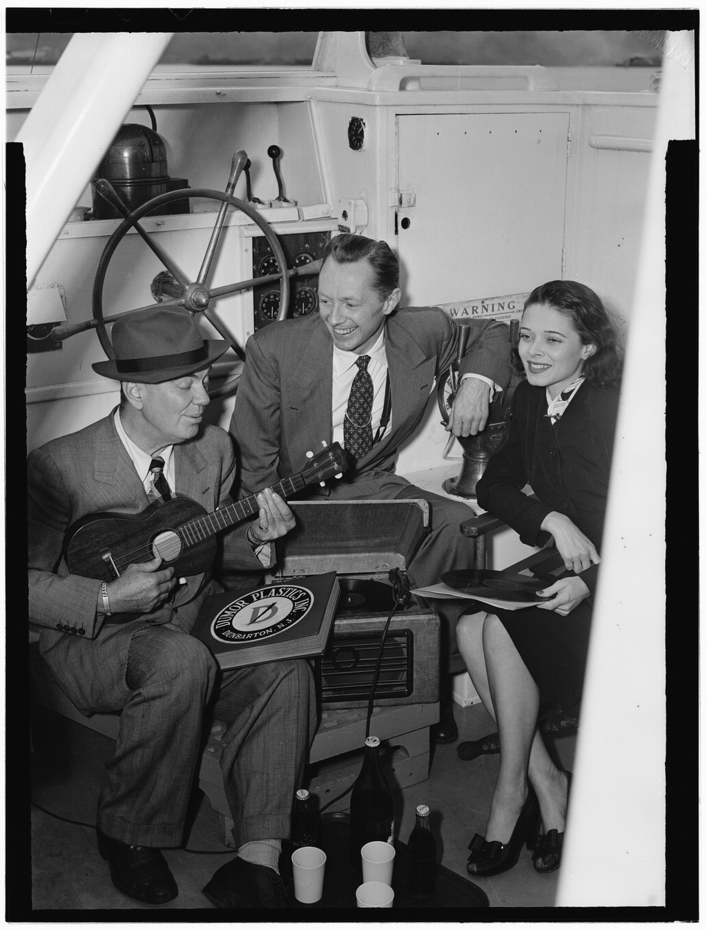 Gottlieb, William P., 1917-, photographer. [Portrait of Cliff Edwards (at left, playing ukulele), Betty Brewer (right), and Frank Raye (center), on Ukelele Lady (yacht), Hudson River, N.Y., ca. June 1947] 1 negative : b&w ; 3 1/4 x 4 1/4 in. Notes: Gottlieb Collection Assignment No. 121 Reference print available in Music Division, Library of Congress. Purchase William P. Gottlieb Forms part of: William P. Gottlieb Collection (Library of Congress). Subjects: Edwards, Cliff, 1895-1971 Brewer, Betty Raye, Frank Jazz musicians--1940-1950. Women jazz musicians--1940-1950. Jazz singers--1940-1950. Format: Portrait photographs--1940-1950. Group portraits--1940-1950. Film negatives--1940-1950. Rights Info: Mr. Gottlieb has dedicated these works to the public domain, but rights of privacy and publicity may apply. Repository: (negative) Library of Congress, Prints & Photographs Division, Washington D.C. 20540 USA, (reference print) Library of Congress, Music Division, Washington D.C. 20540 USA, Part Of: William P. Gottlieb Collection (DLC) 99-401005 General information about the Gottlieb Collection is available at Persistent URL: Call Number: LC-GLB13- 0225